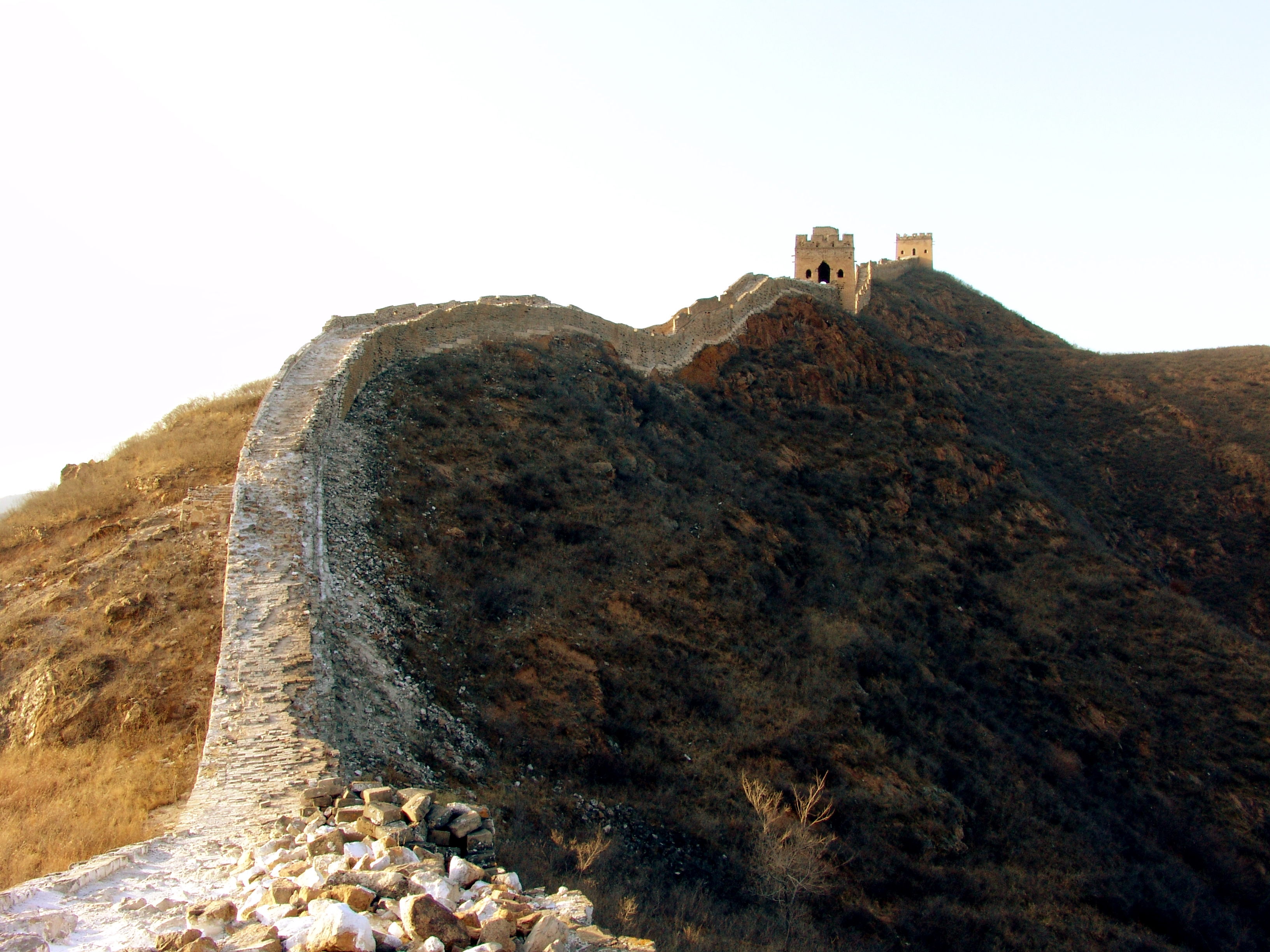 A section of the Great Wall of China between Simatai and Jinshanling